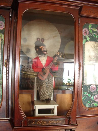 Picture of a historical music box as seen in the "Gasthof Steinheidel" (Staahaadler Aff in Steinheidel/Breitenbrunn, Sachsen, Germany).